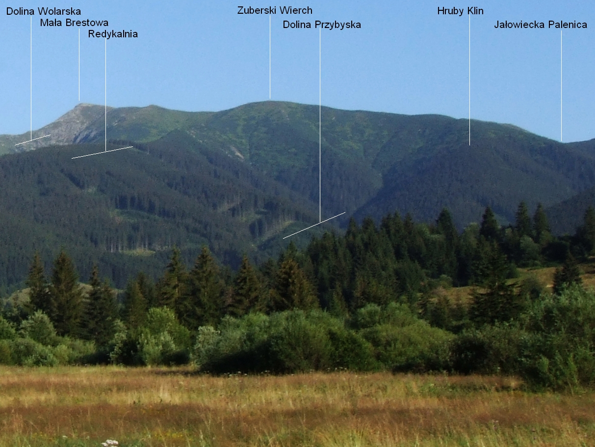 View from Zuberec